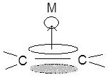 Sigma donation